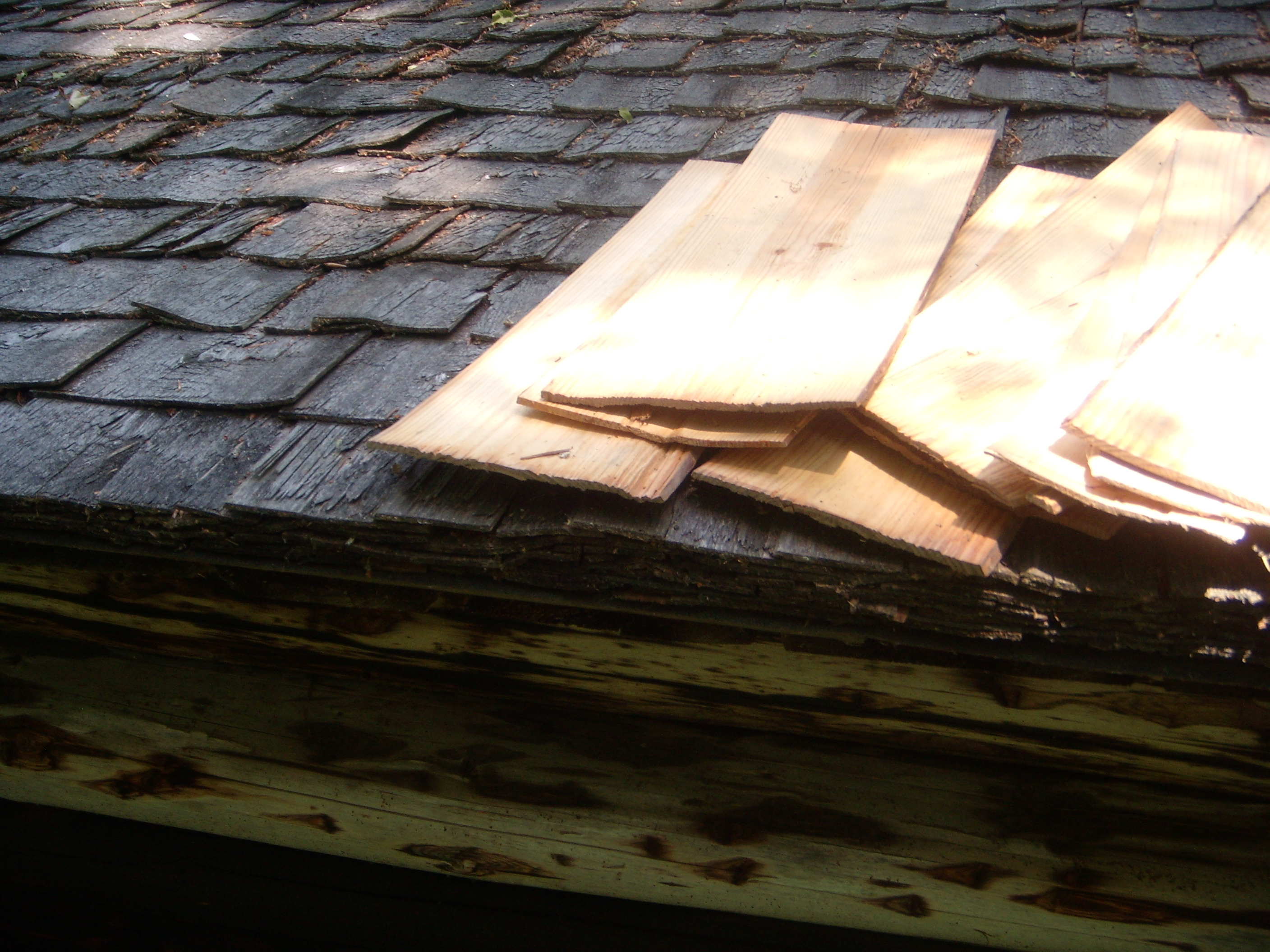 Wooden shingles Sweden, roof.